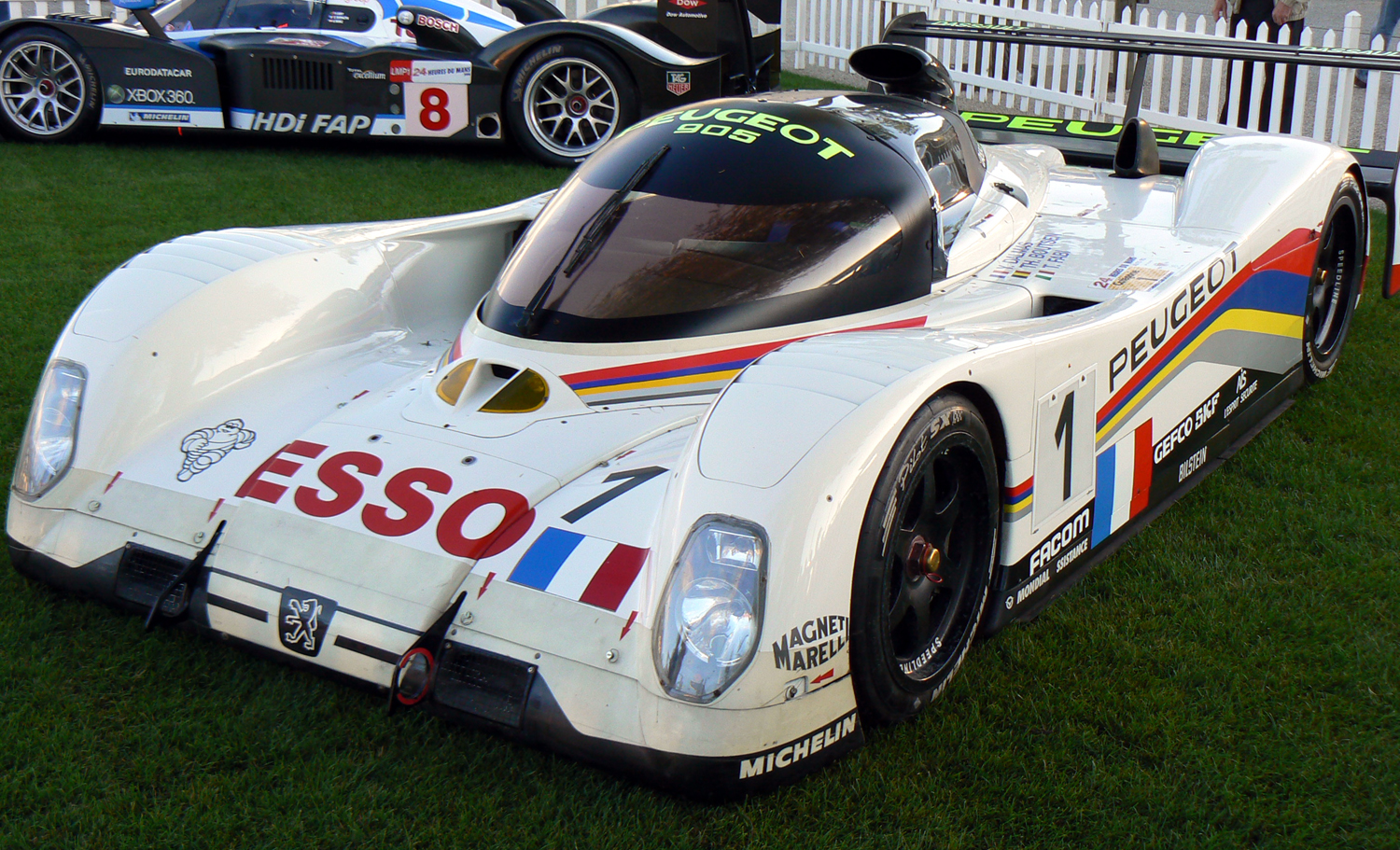 Peugeot 905 at Le Mans Classic 2008. 2nd Le Mans 1993. Chassis EV 17 (winner Le Mans 1992)